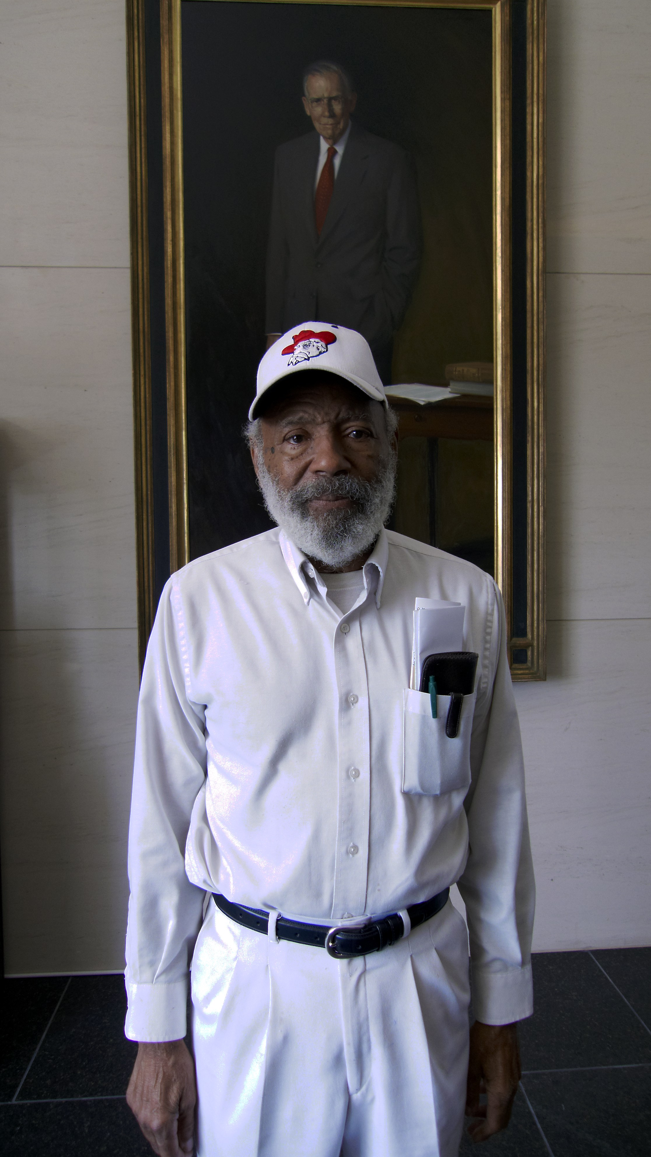 God's Message for Our Time- "Only the Family of God can solve the problems of our time. The Bible says'You should Train-up a child in the way he should go, and when he is old he will not depart from it'. The African Proverb says "It takes a whole village to Raise a child" By Prophet James Meredith (The first Black to go to Ole Miss)